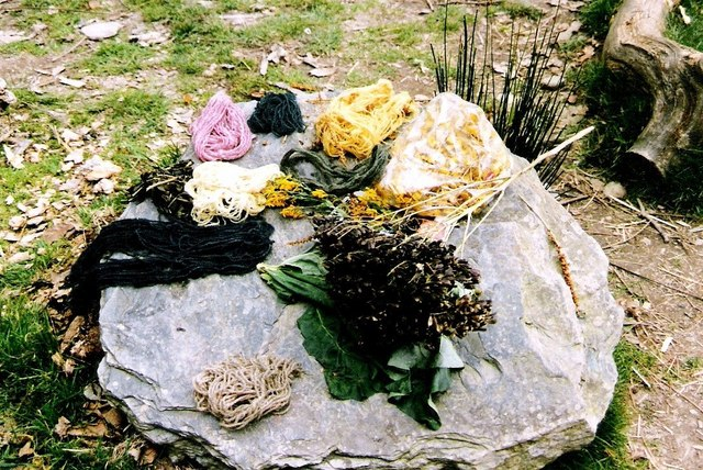 Plant Dyes - Castell Henllys Many plants and lichens can be used for dyeing wool for many different colours and nearly any part of the plant can be used. Sometimes a mordant is needed to stabilise the plant dye in the wool to prevent the colour from running and alum is often used.